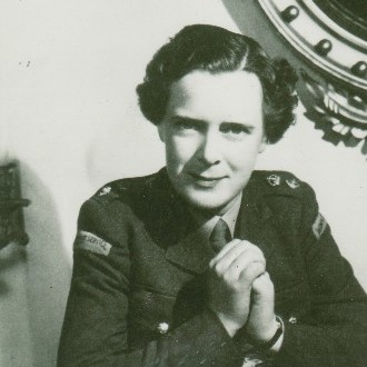 Maud Lilburn MacLellan OBE (October 6, 1903 – May 21, 1977) was a Scottish commanding officer of the First Aid Nursing Yeomanry (FANY). Whilst being obliged to serve with the ATS during the war she taught the future Queen Elizabeth to drive. Guess photo as 1944